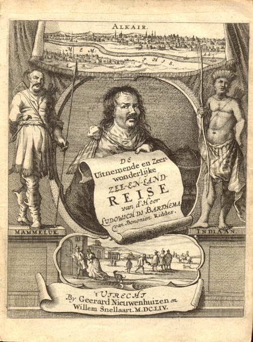 Title page of the first Dutch translation of the travels of Ludovico di Varthema, 1654.